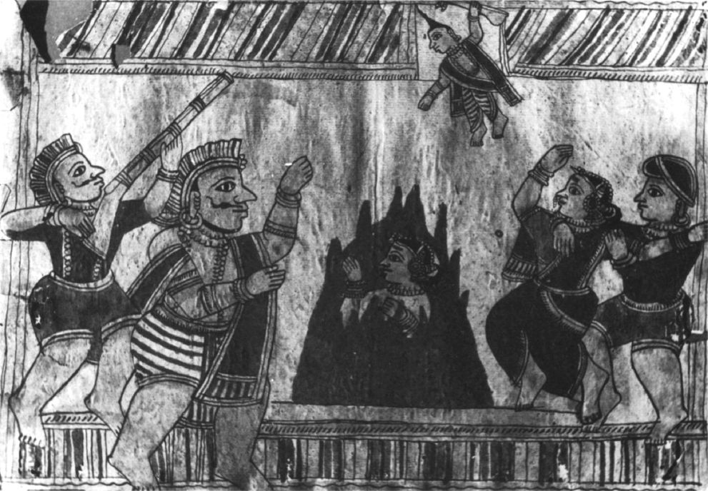 Pothi (painting) from Pinguli village, Sawantwadi, Maharashtra